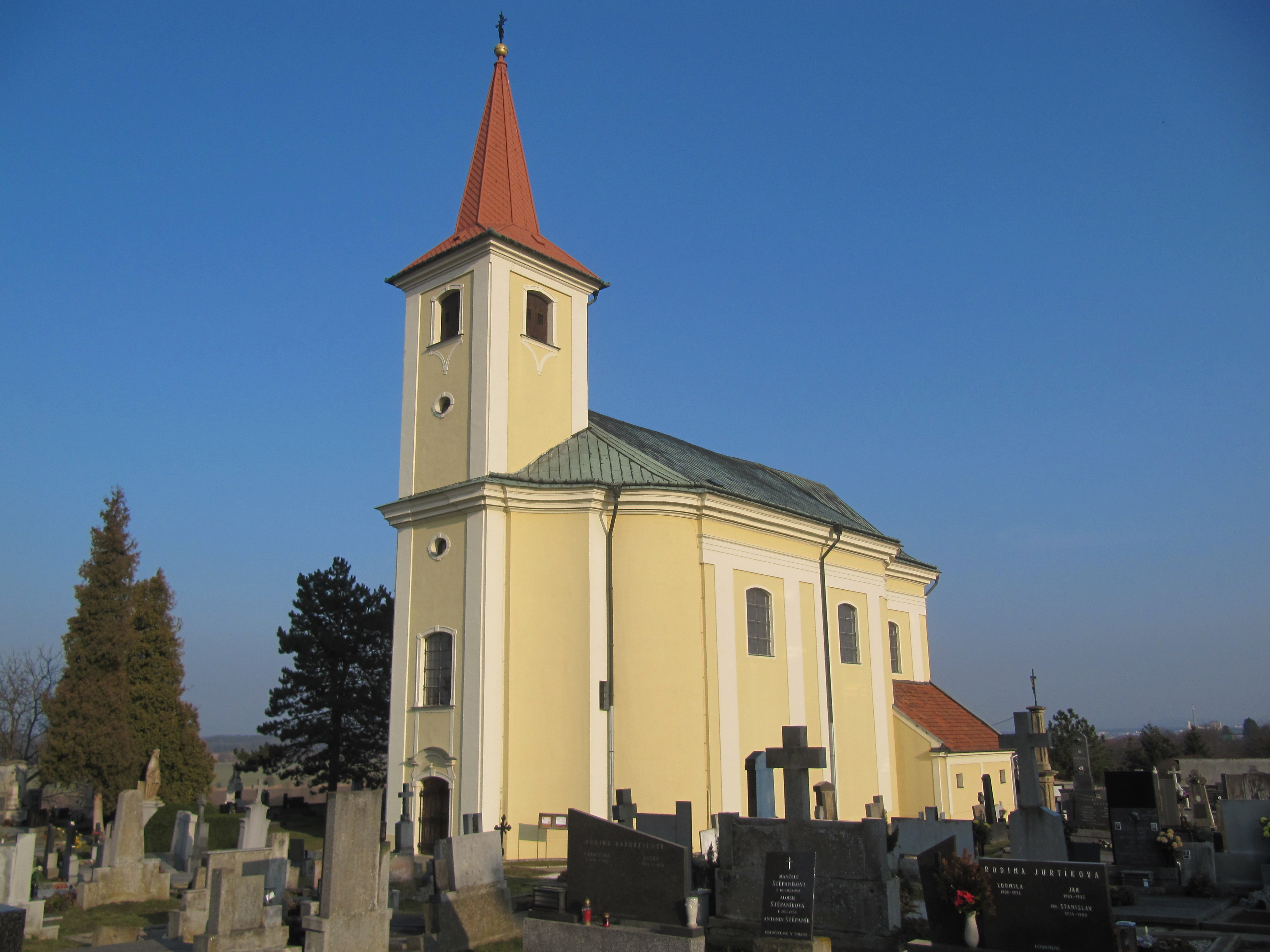 Kroměříž, Czech Republic, part Hradisko. All Saints Church.